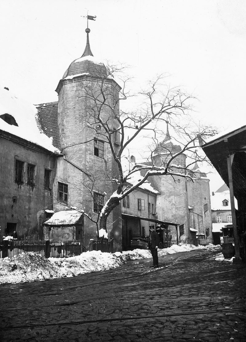 The Jägerhof building in Dresden in 1901